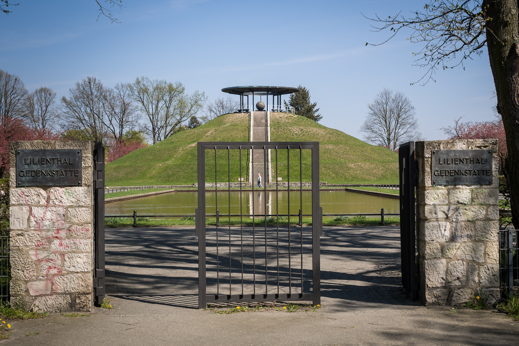 Lilienthal-Memorial in Berlin Lichterfelde